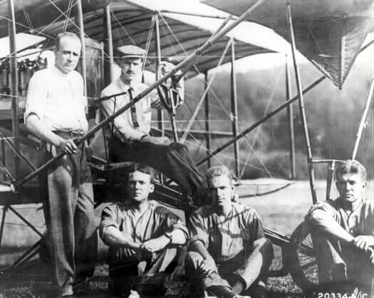 Glenn Curtis at the controls of a Curtis A-1. Seated (L-R) are John Rodgers, John Towers, and Theodore Ellyson.